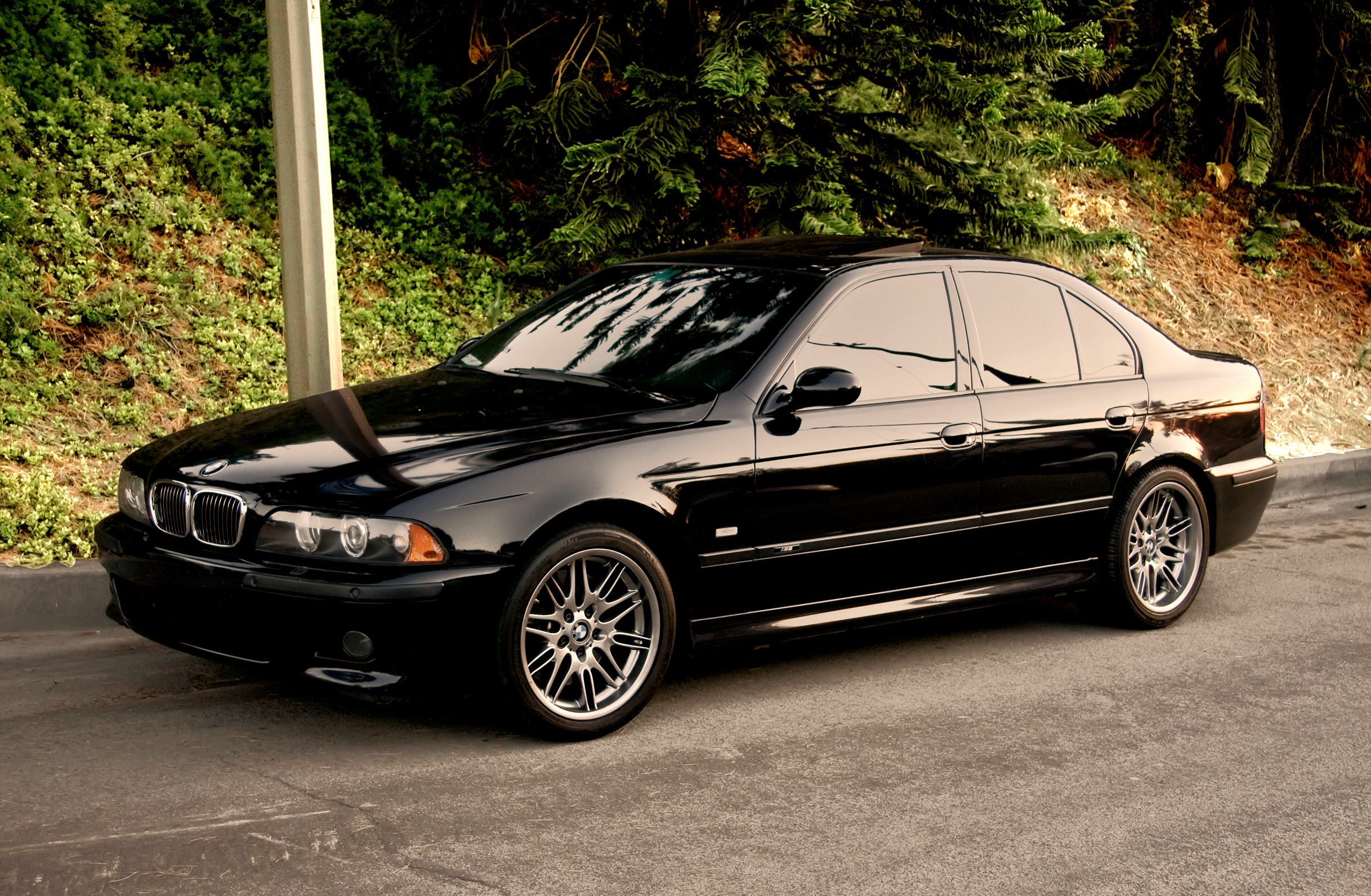 BMW E39 M5.